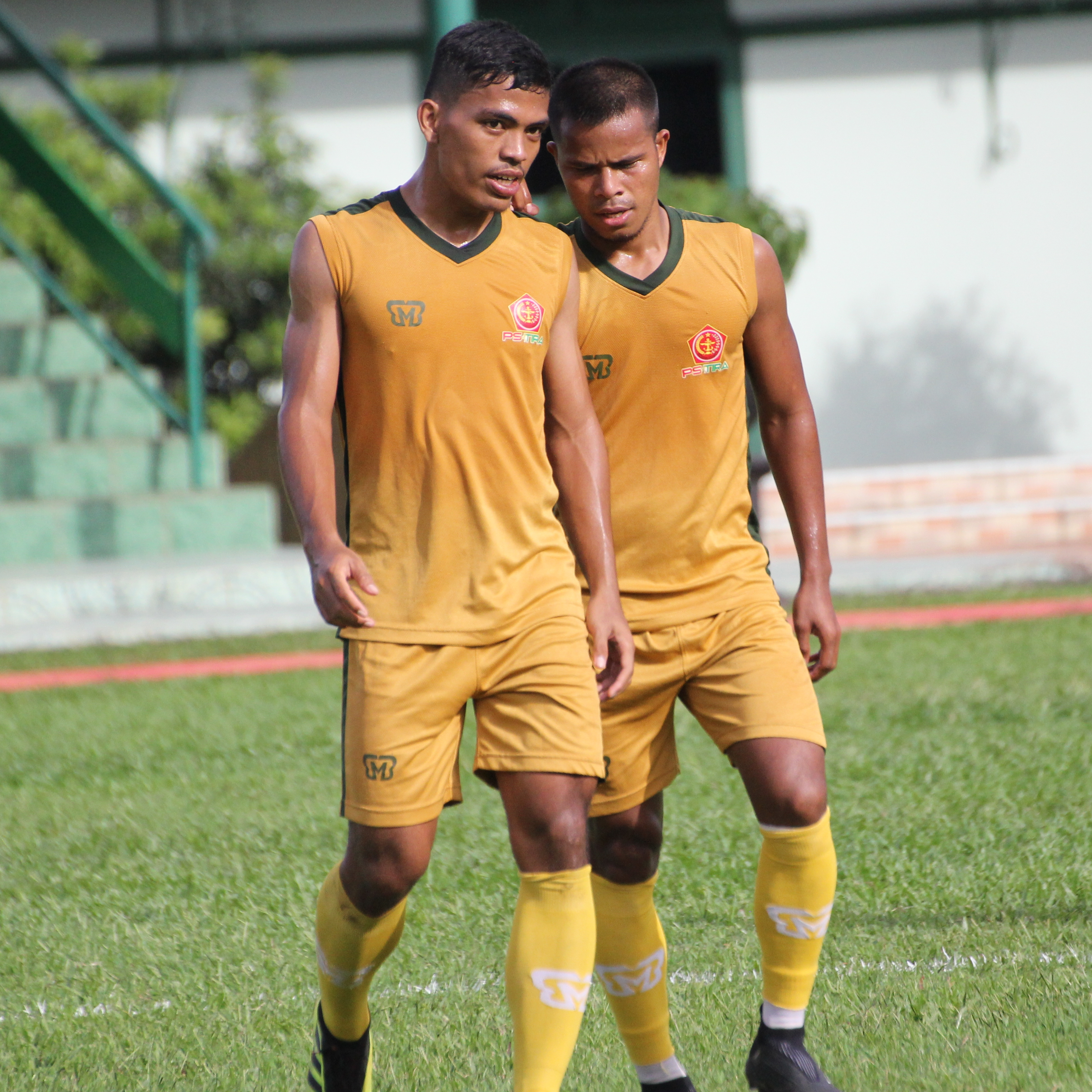 PS Tira players, Tanjung Sugiarto (right) and Manahati Lestusen